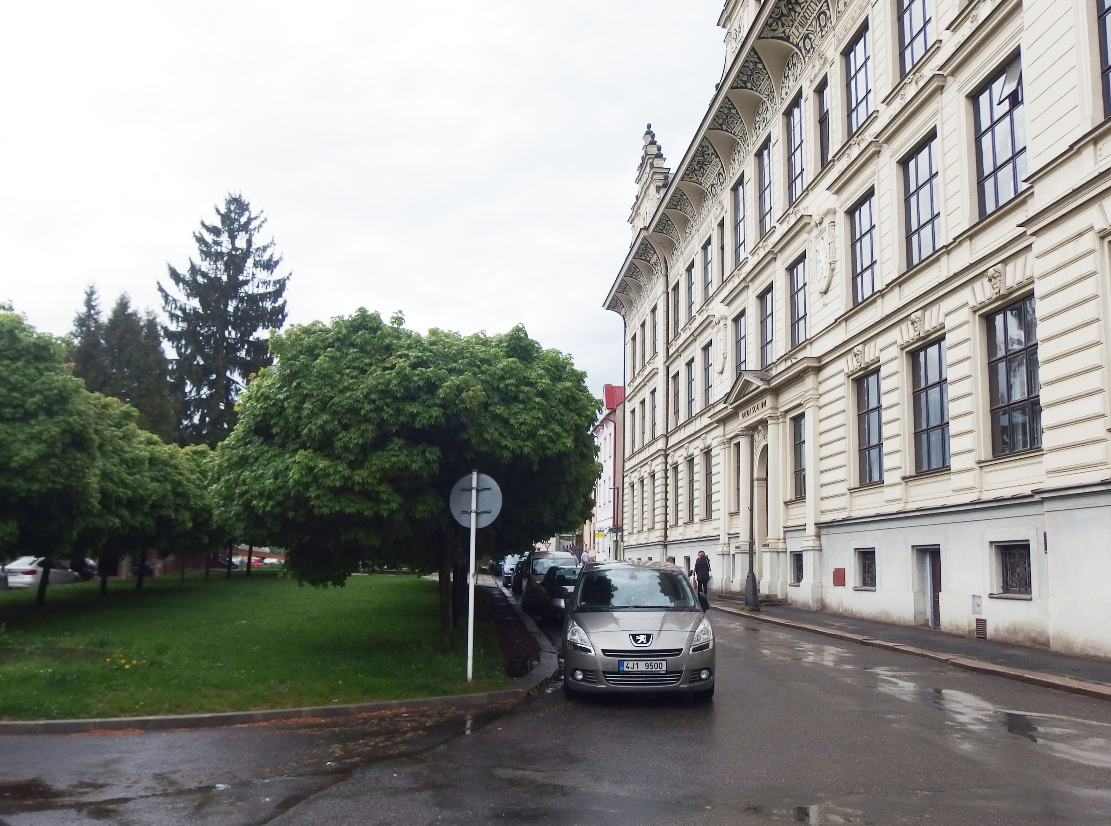 Litomyšl, Svitavy District, Czech Republic.